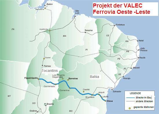 Railway Map Ferrovia Oeste-Leste